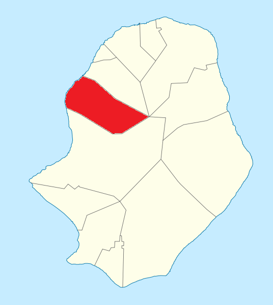 Location map for Makefu, Niue. Based on file:Niue location map.svg.